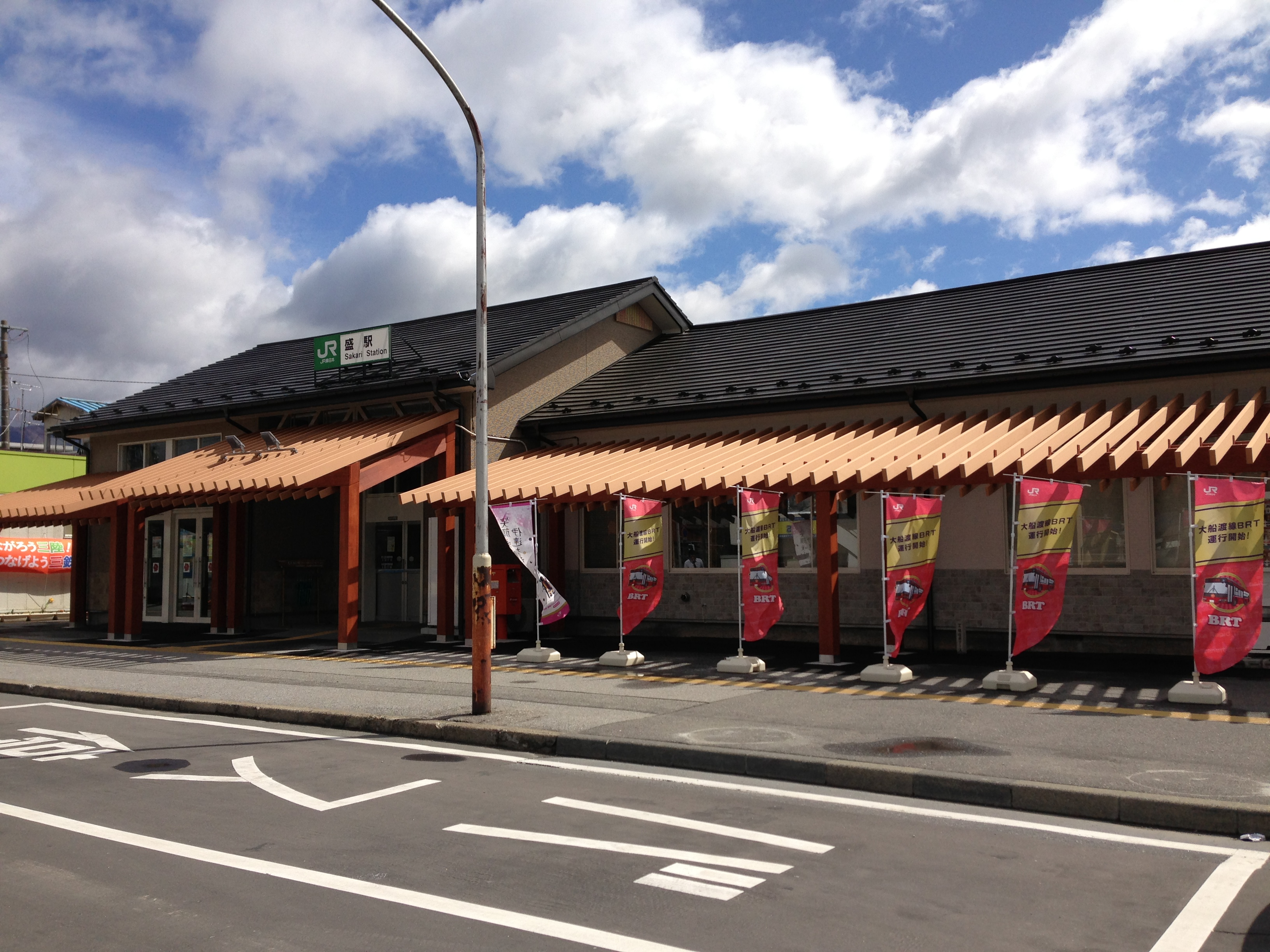 Sakari Station, East Japan Railway Company.